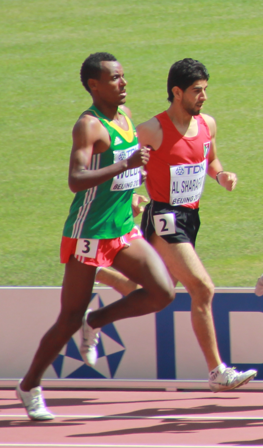 Dawit Wolde and Awwad Al-Sharafat at the 2015 World Championships in Athletics